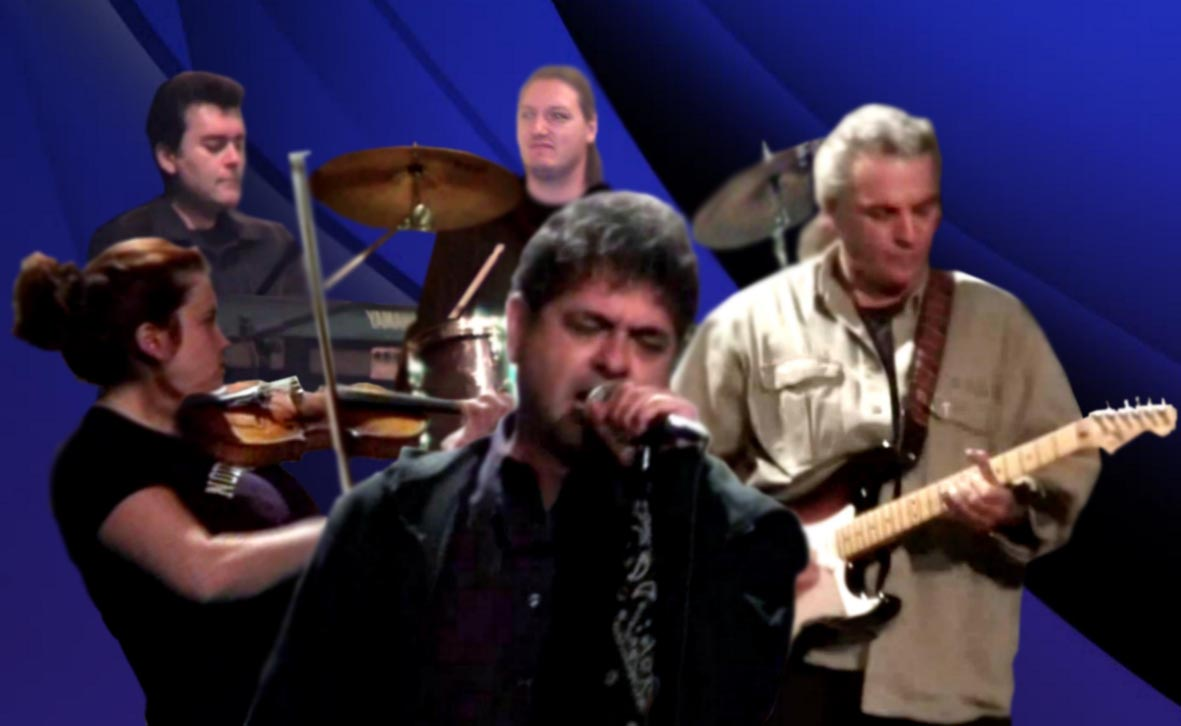 Archanthropoi, greek music group